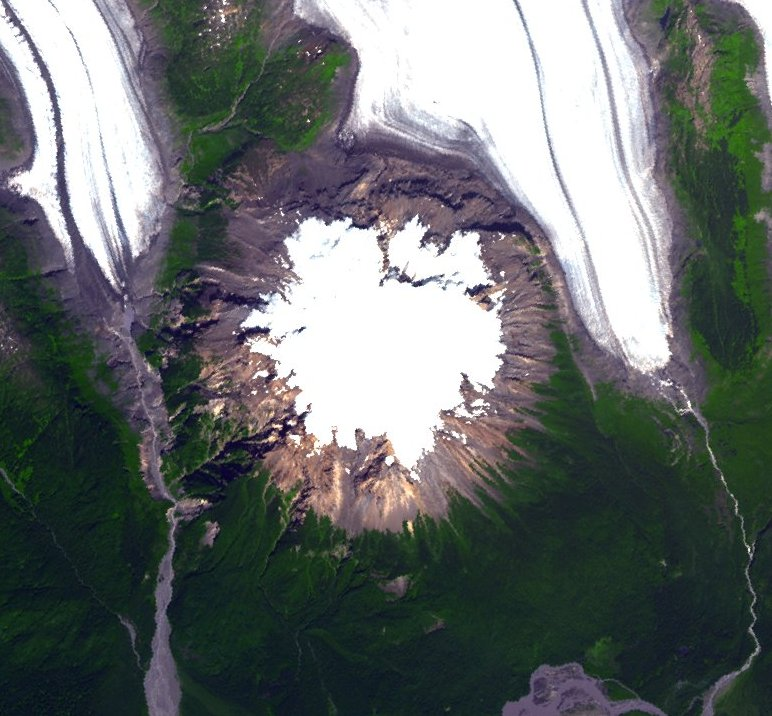 Satellite photo of Hoodoo Mountain in northern British Columbia, Canada